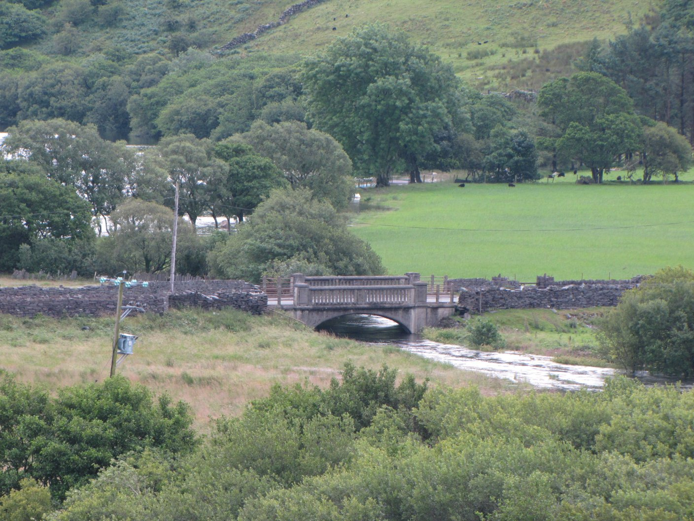 Afon Llyfni at the outflow of Llyn Nantlle Uchaf and B4418 bridge.